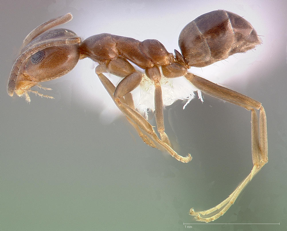 Profile view of ant Linepithema humile specimen casent0005323.